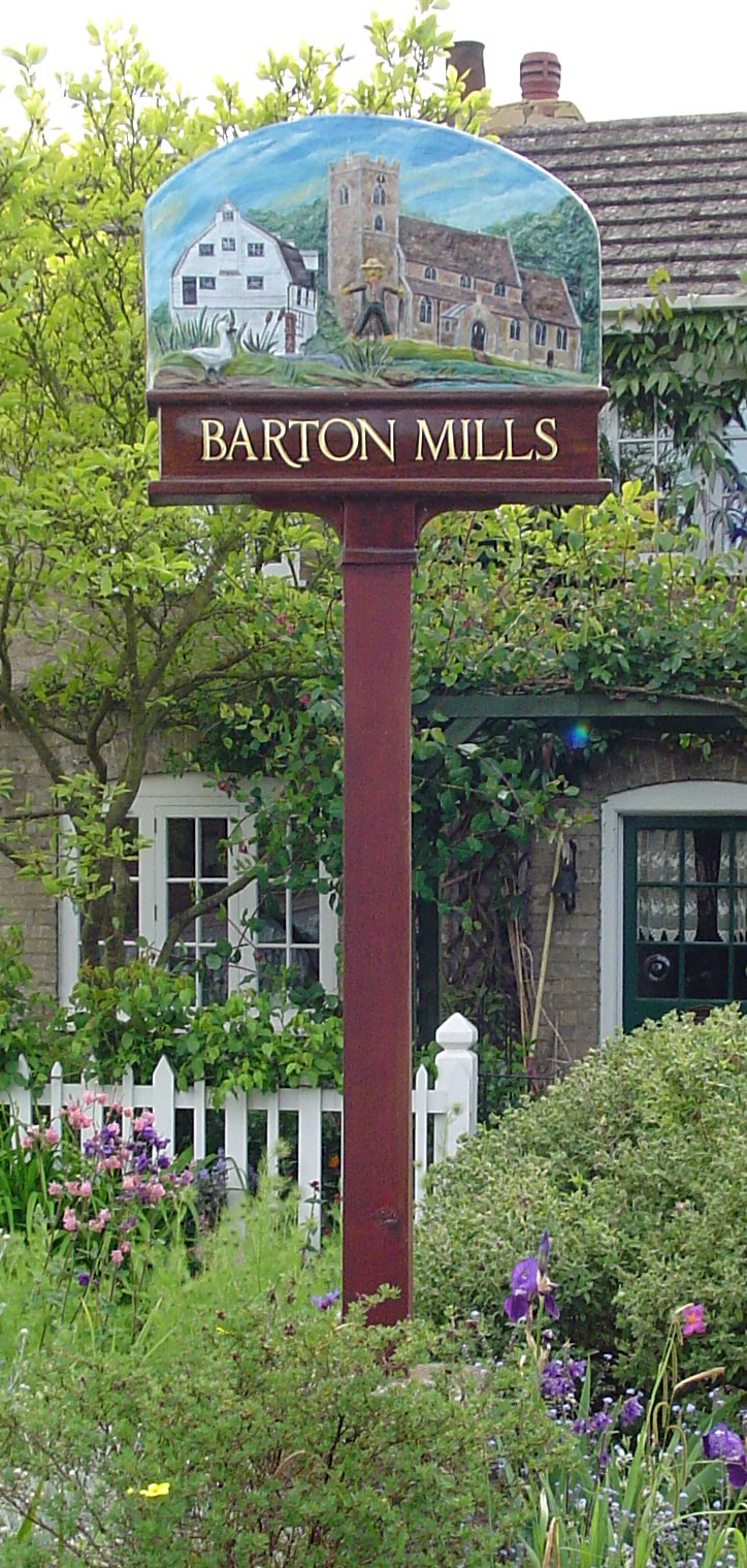 Signpost in Barton Mills